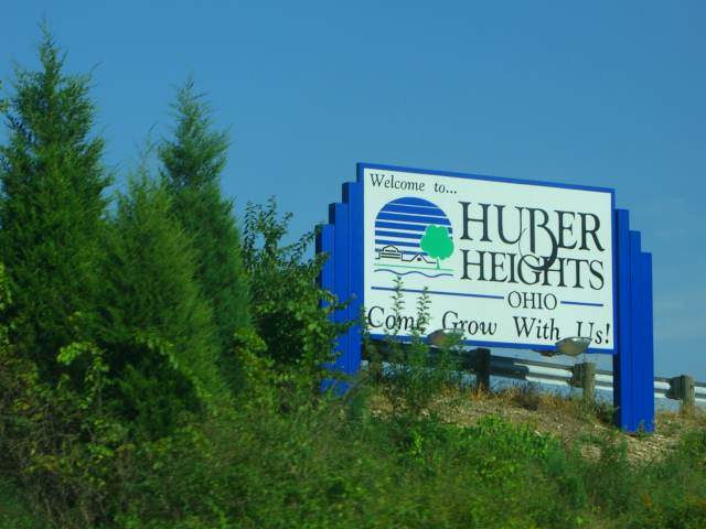 Nick Juhasz created